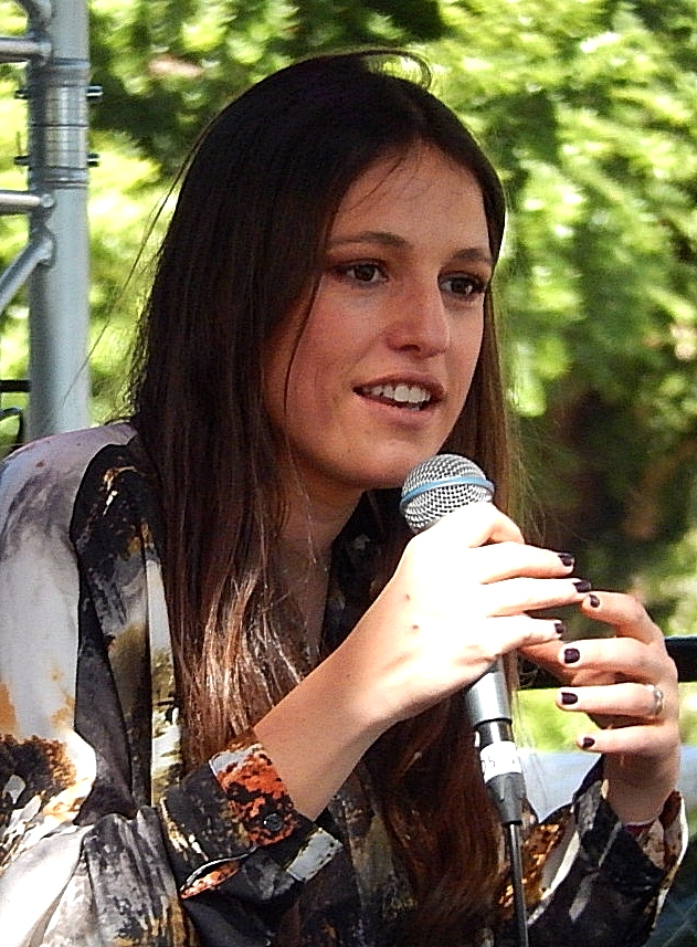 Portuguese vocalist Carminho in 2014